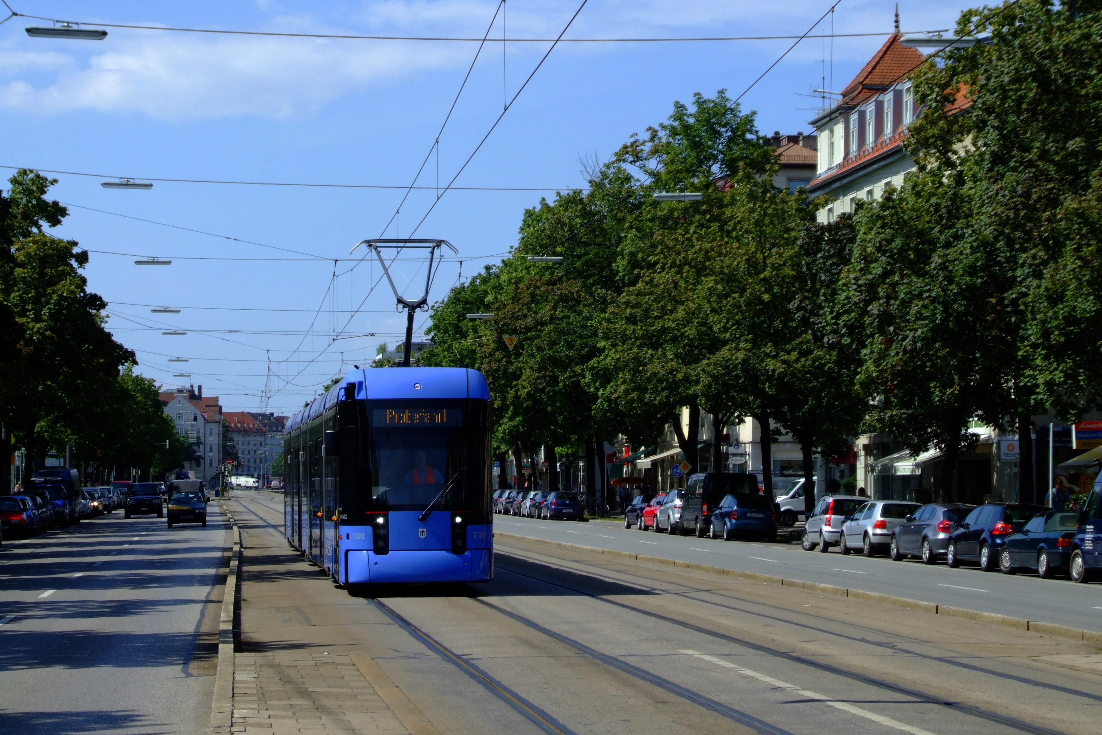 The munich Variobahn-Tram 2301 on a test-drive.